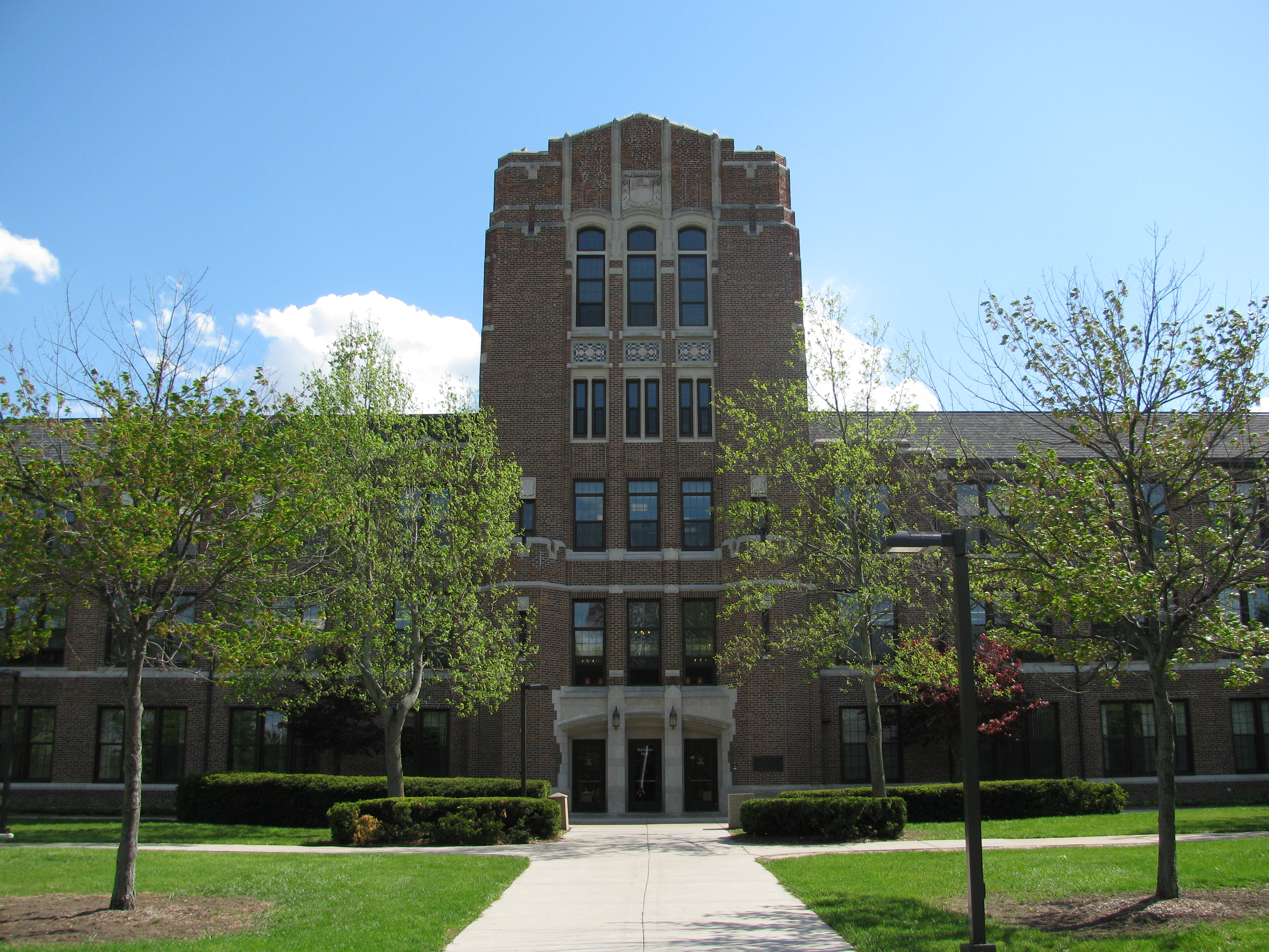 Picture of CMU's Warriner Hall